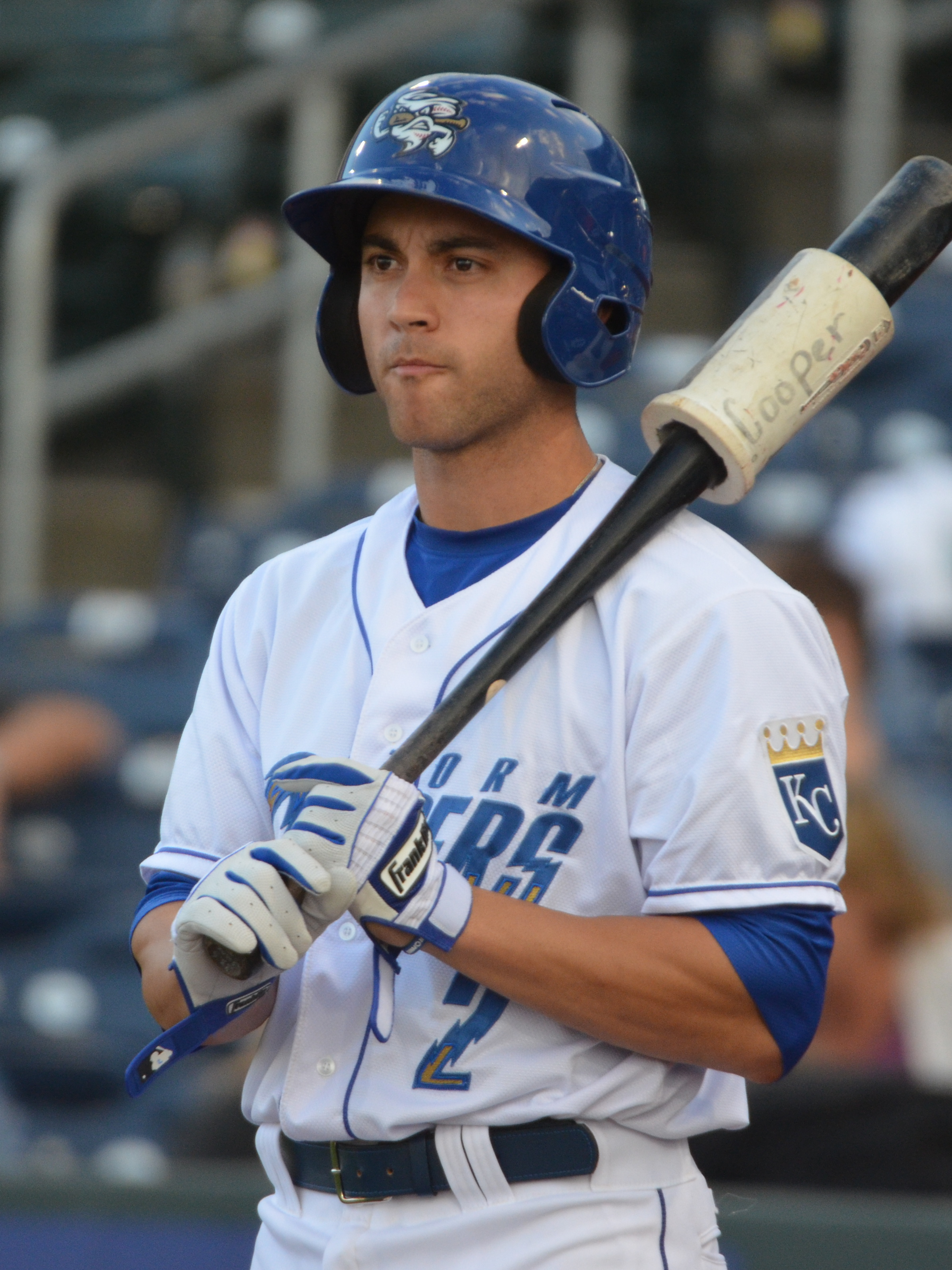 Anthony Seratelli